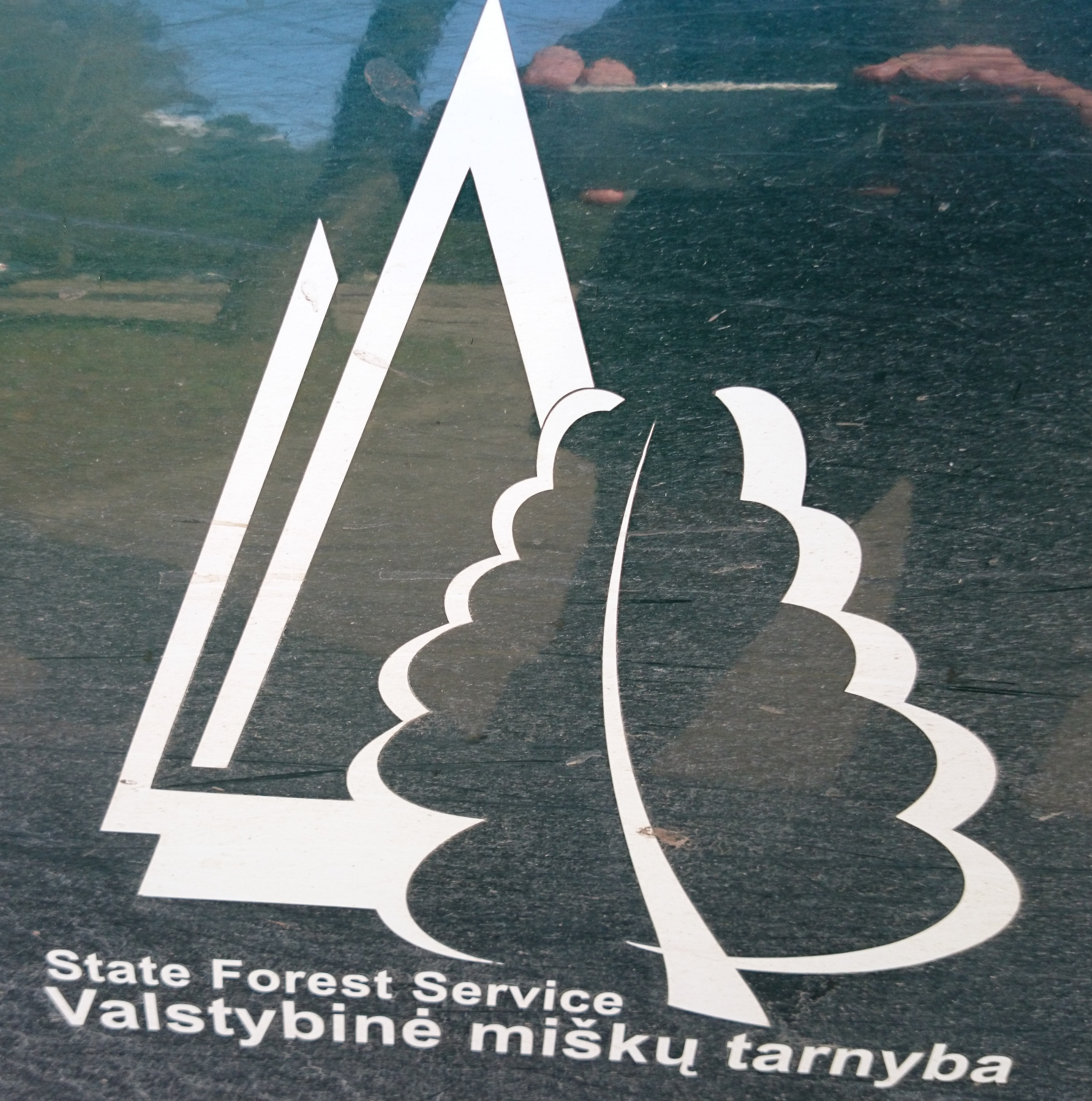 Valstybinė miškų tarnyba (logo)